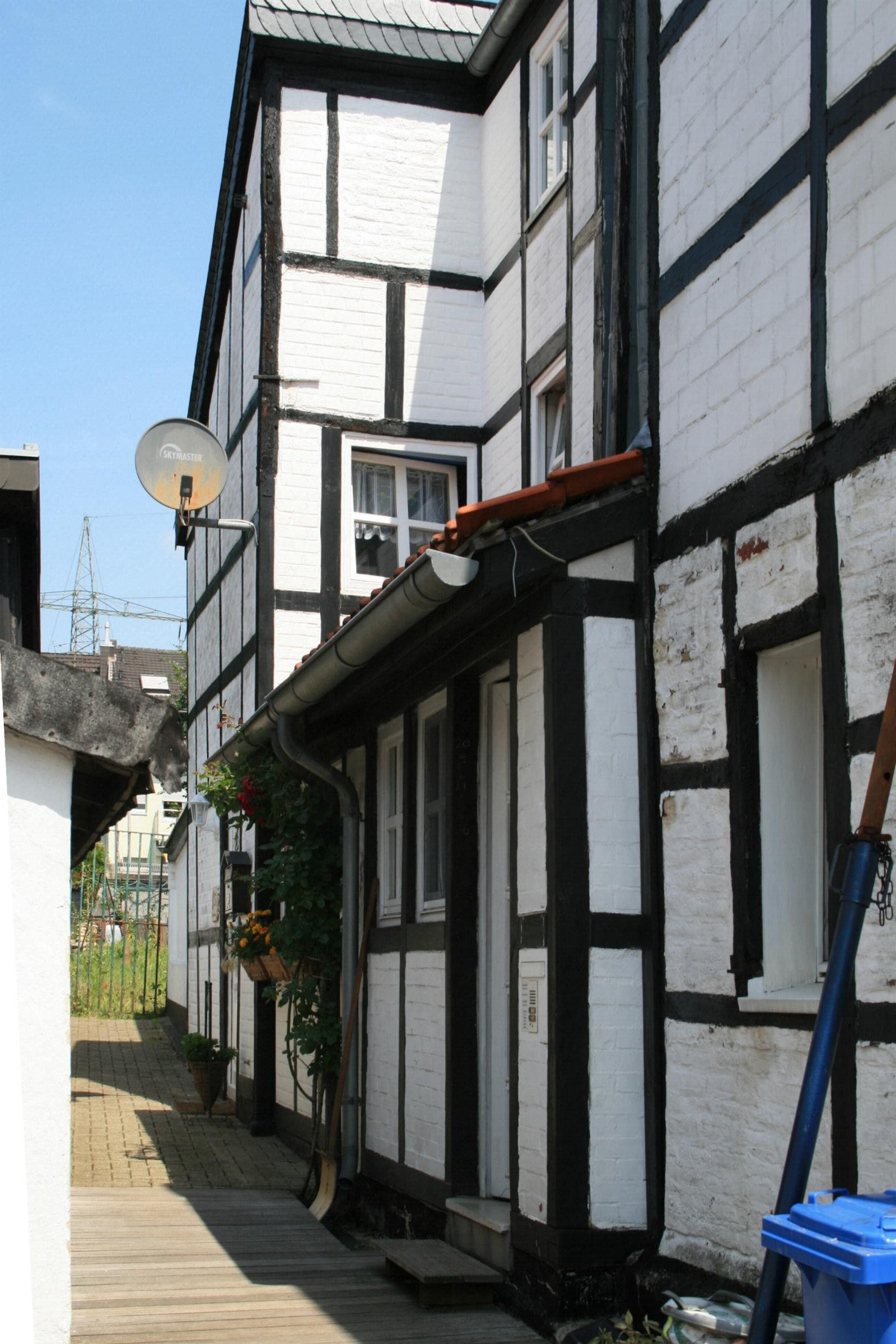 Cultural heritage monument No. U 006 in Mönchengladbach